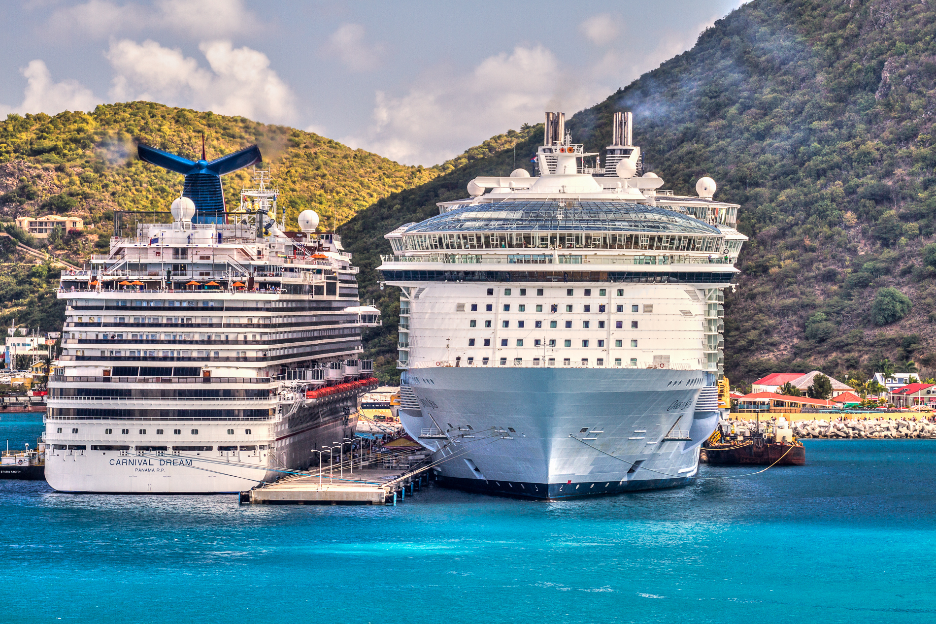 Oasis of the Sea and Carnival Dream HDR